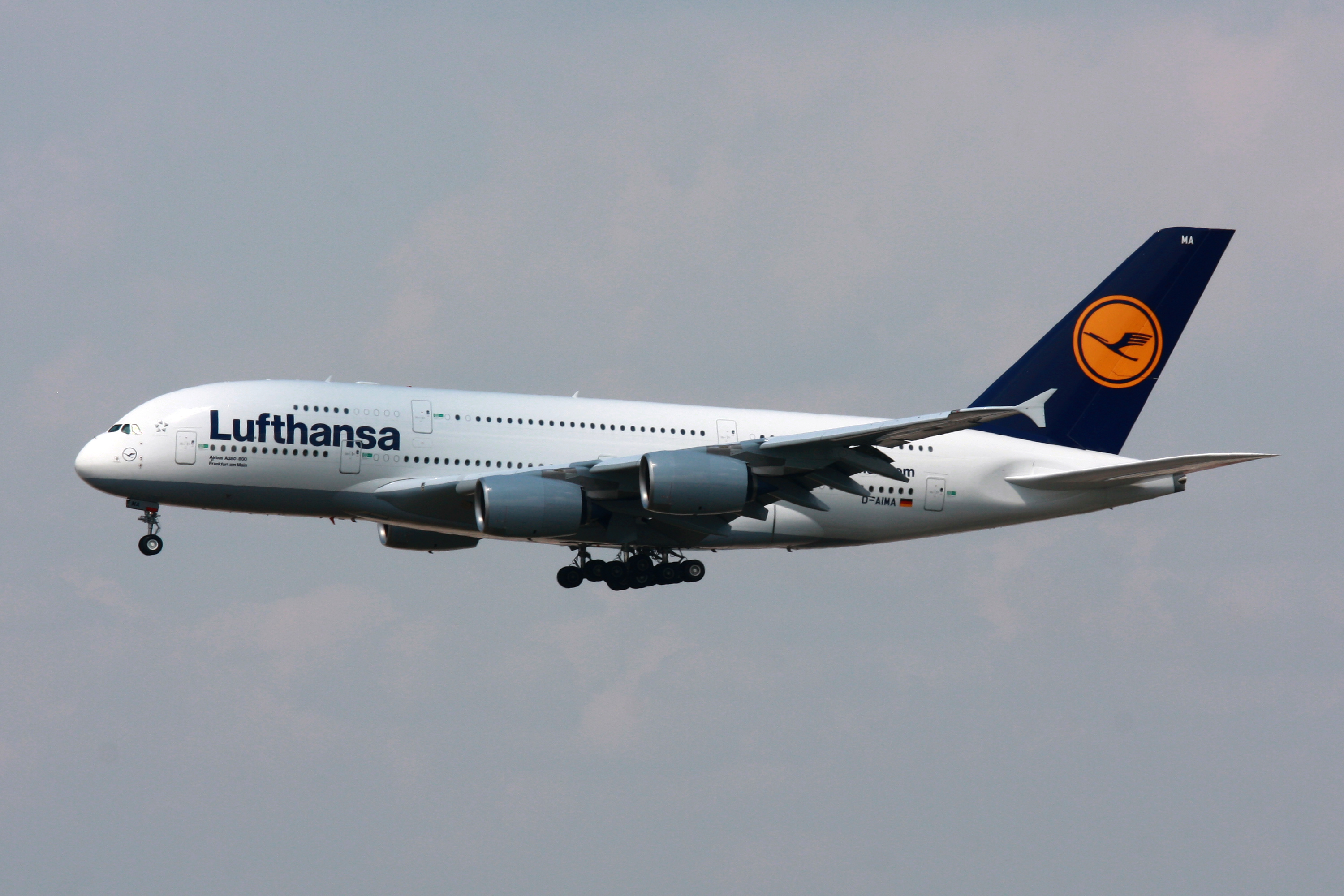 Lufthansa's first Airbus A380 landing at Frankfurt Airport